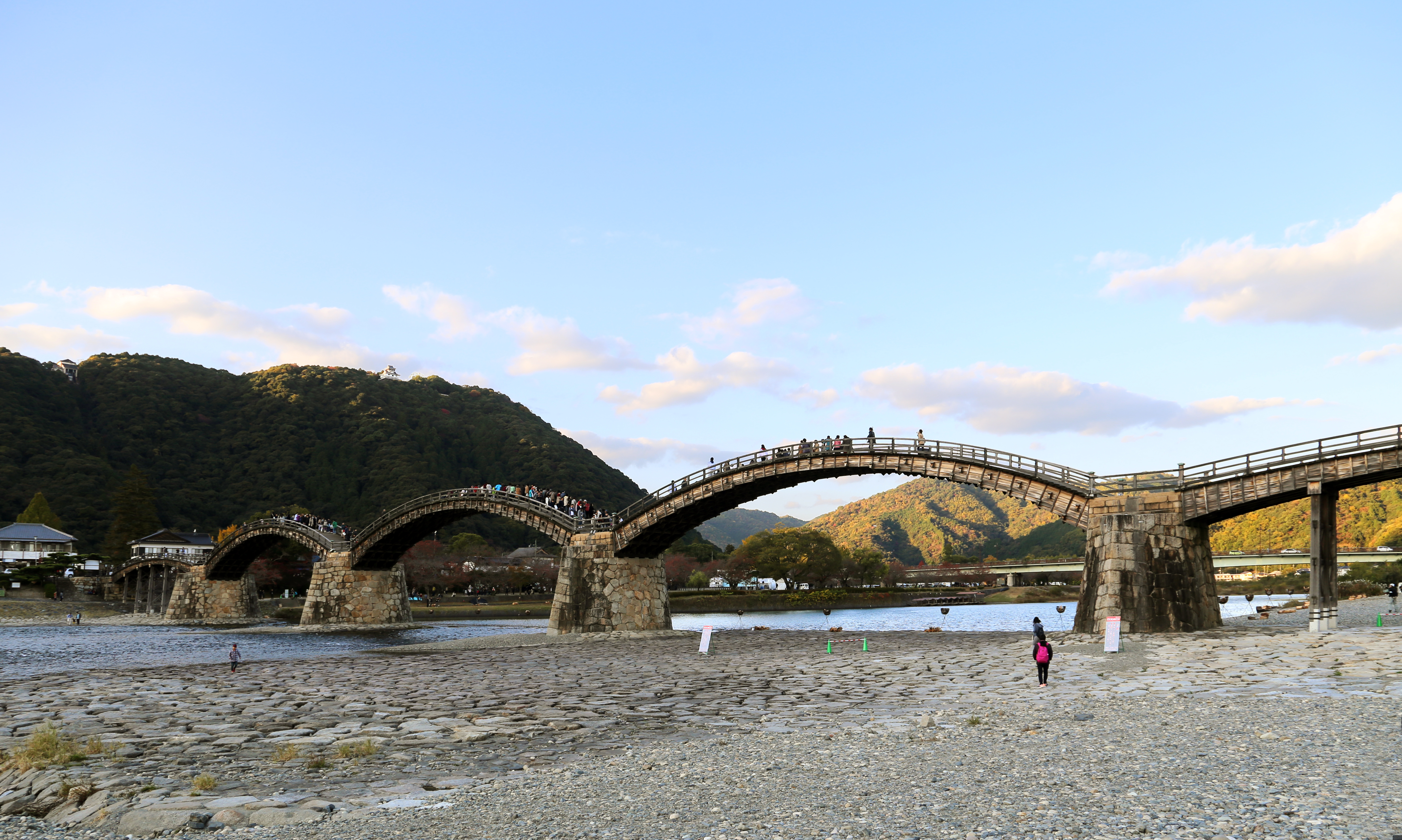 Iwakuni, Yamaguchi